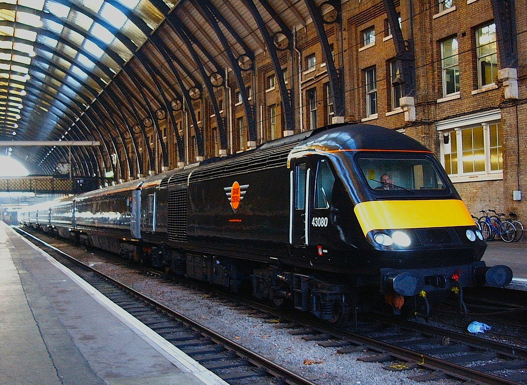 The very first public train to be operated by Grand Central is seen at London Kings Cross on 18TH December 2007.